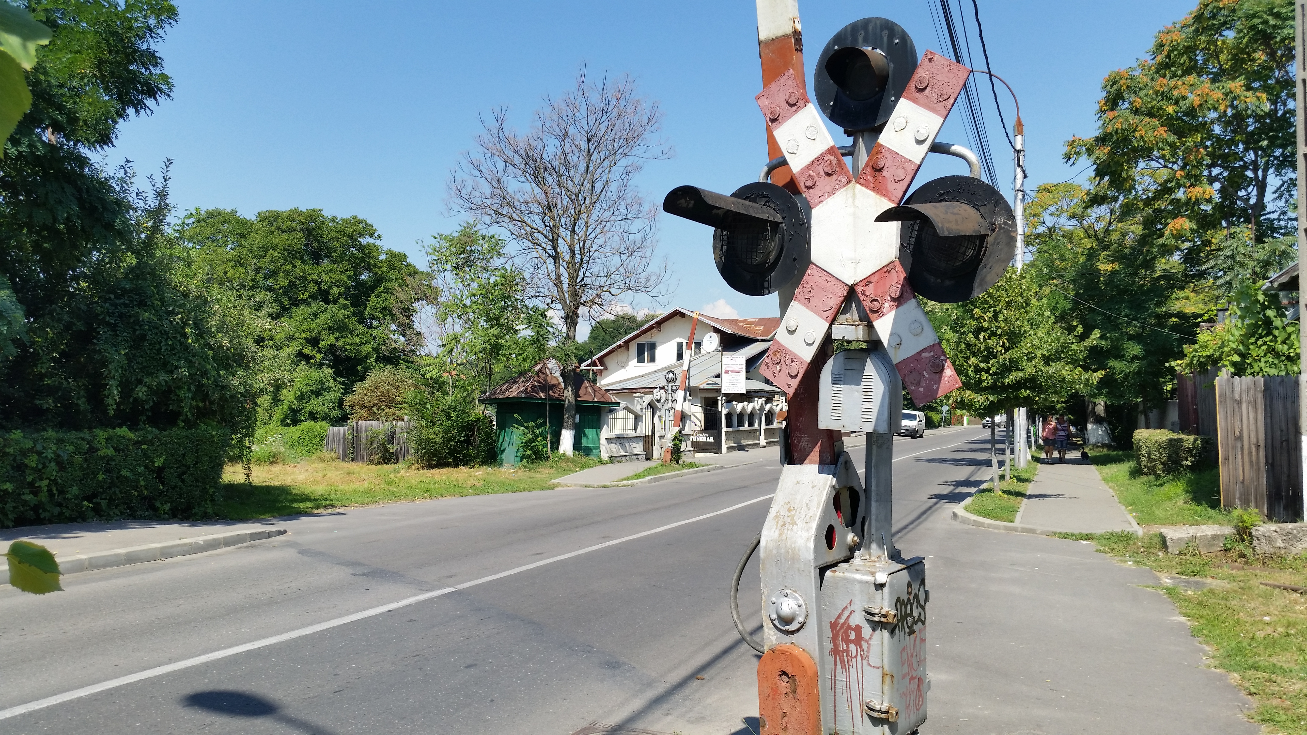 Former railway Câmpina–Câmpinița–Telega, picture taken in Câmpina at the crossroad with Carol I Boulevard.